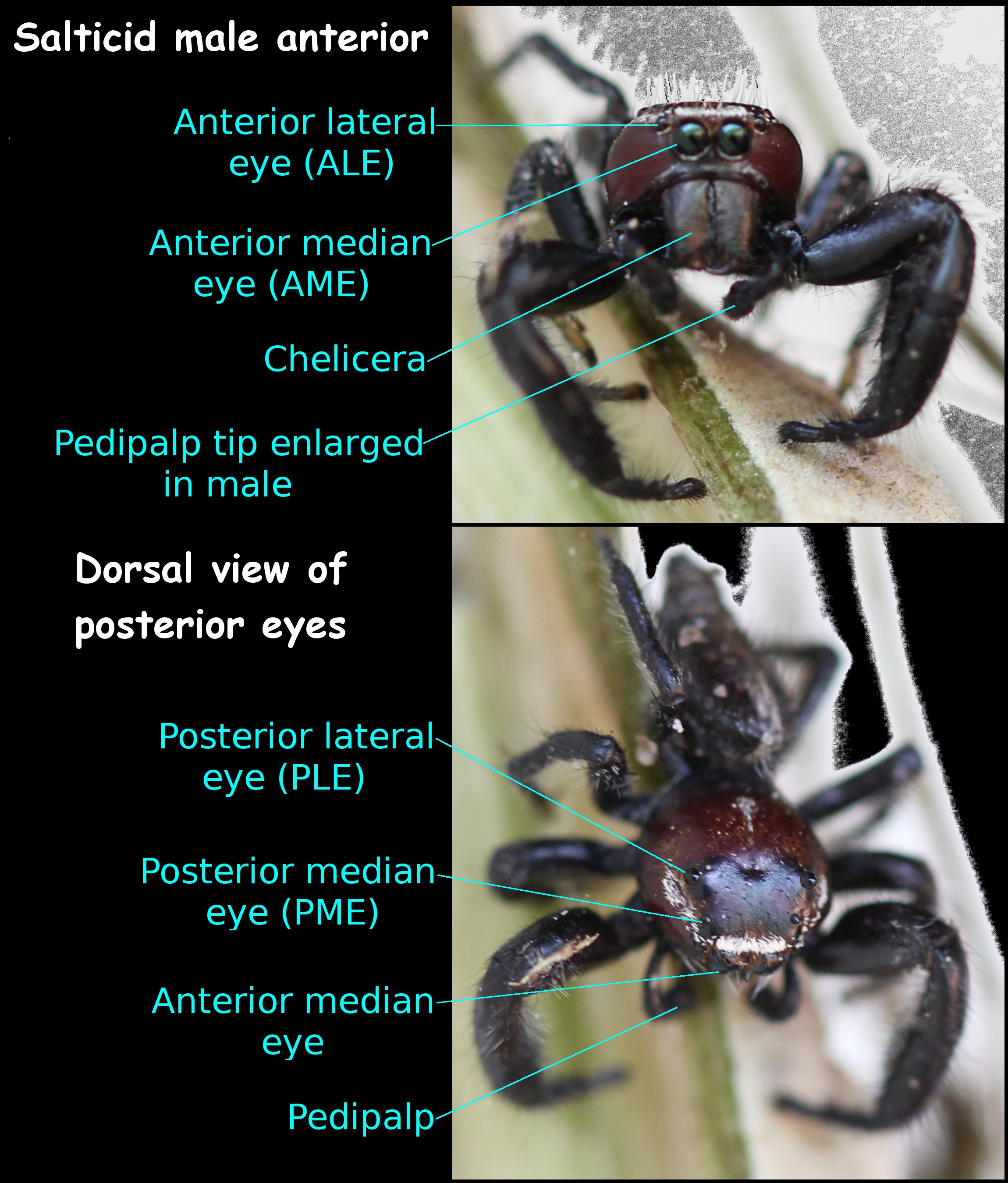 Pair of photos of the same spider illustrate the typical configuration of the eyes of an unidentified male spider in the family Salticidae